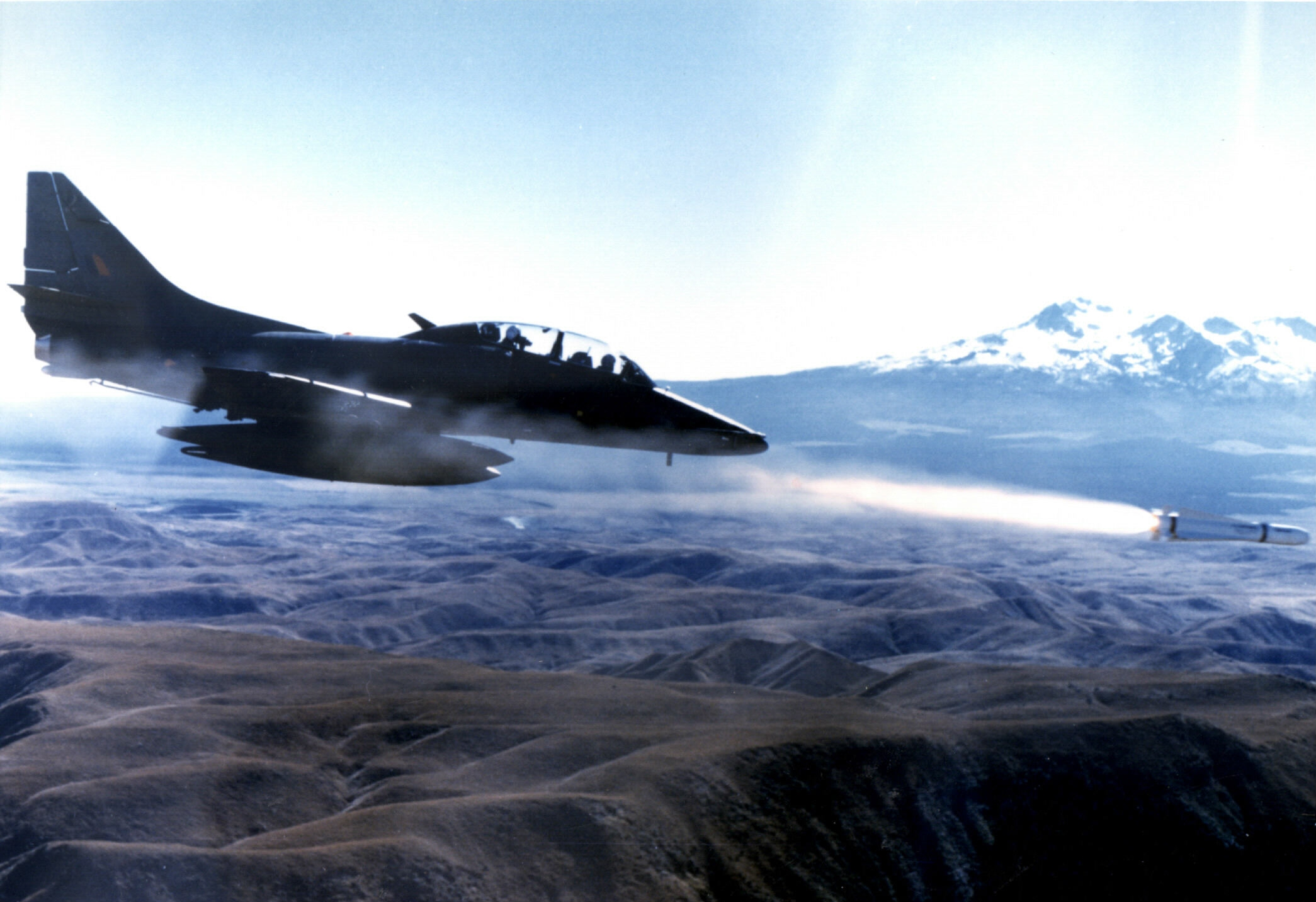 A Douglas TA-4K Skyhawk of the Royal New Zealand Air Force launches an AGM-65 Maverick missile at the Waiouru Training Ground.